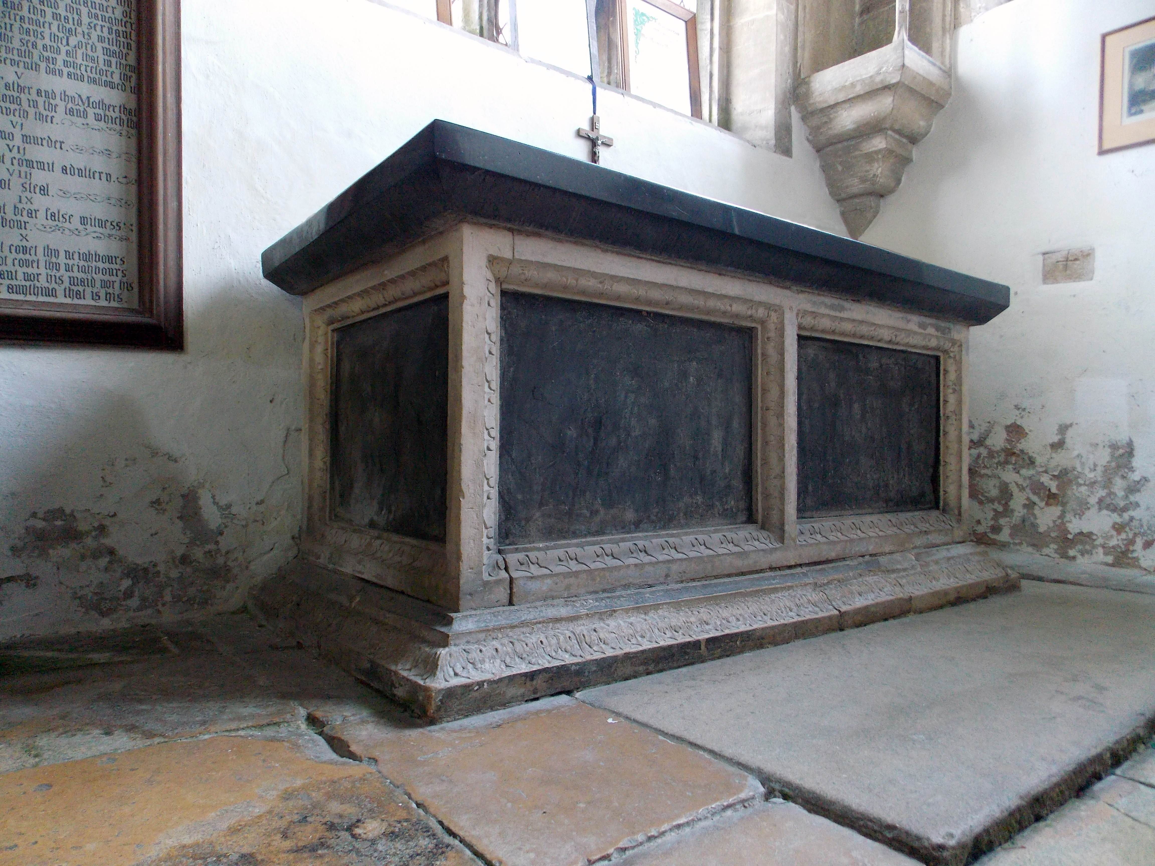 Harlaxton St Mary and St Peter's Church – North Chapel table tomb